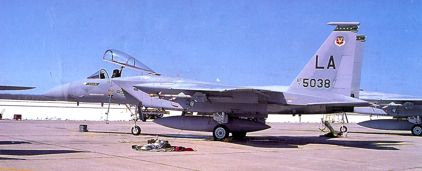 555th Tactical Fighter Training Squadron - McDonnell Douglas F-15A-13-MC Eagle 75-038 to AMARC as FH0038 Sep 10, 1992. Still on AMARC inventory Jan 15, 2008